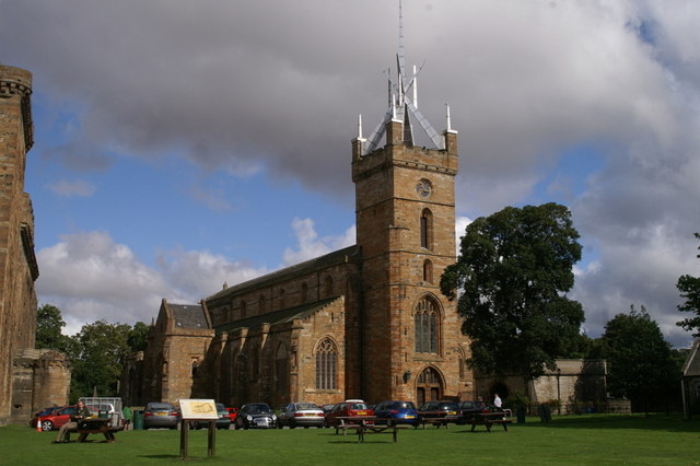 St Michael's, Linlithgow The church alongside Linlithgow Palace.